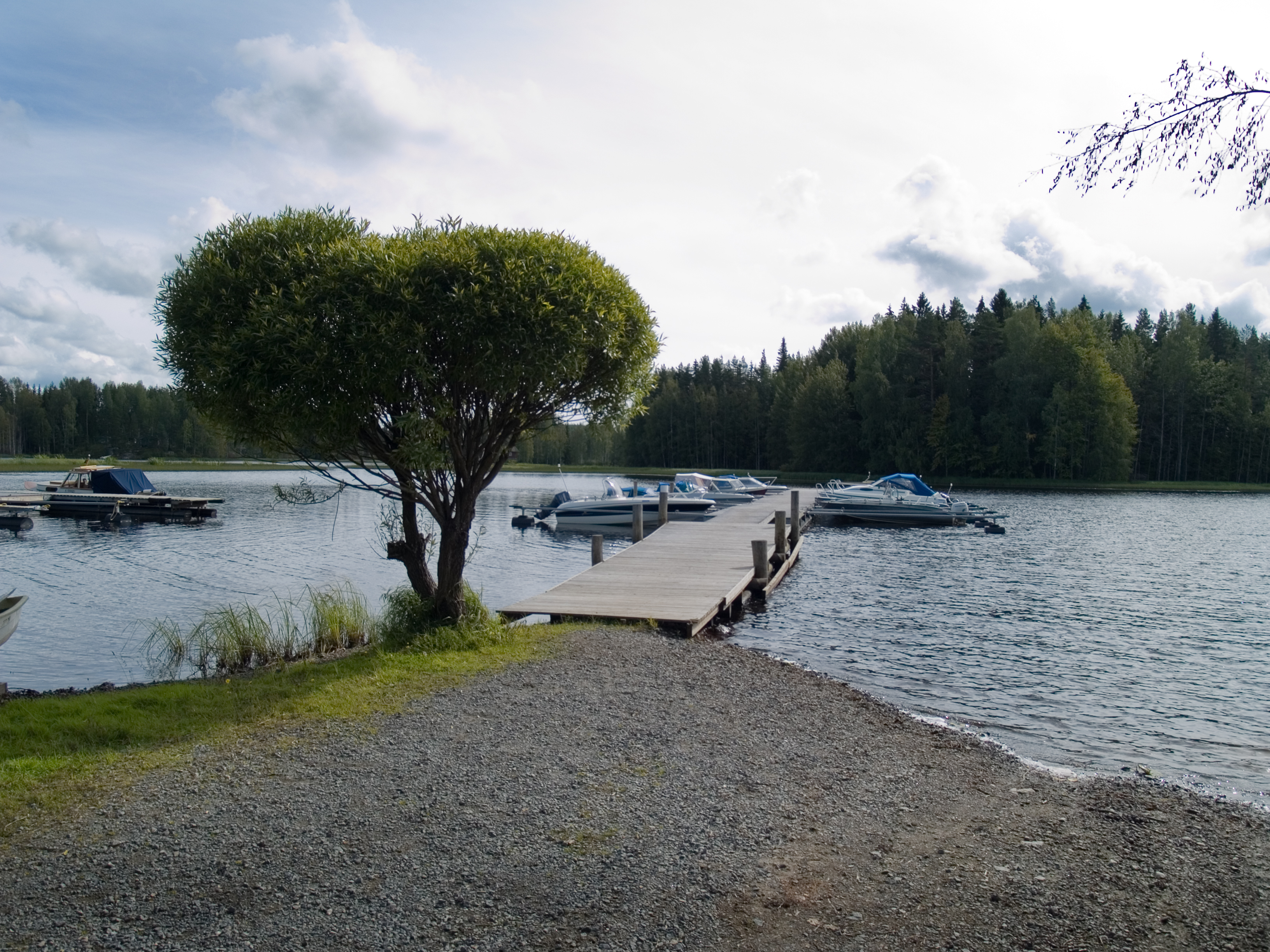 Small harbour near the village Kotala in Virrat, Finland. August 2012.